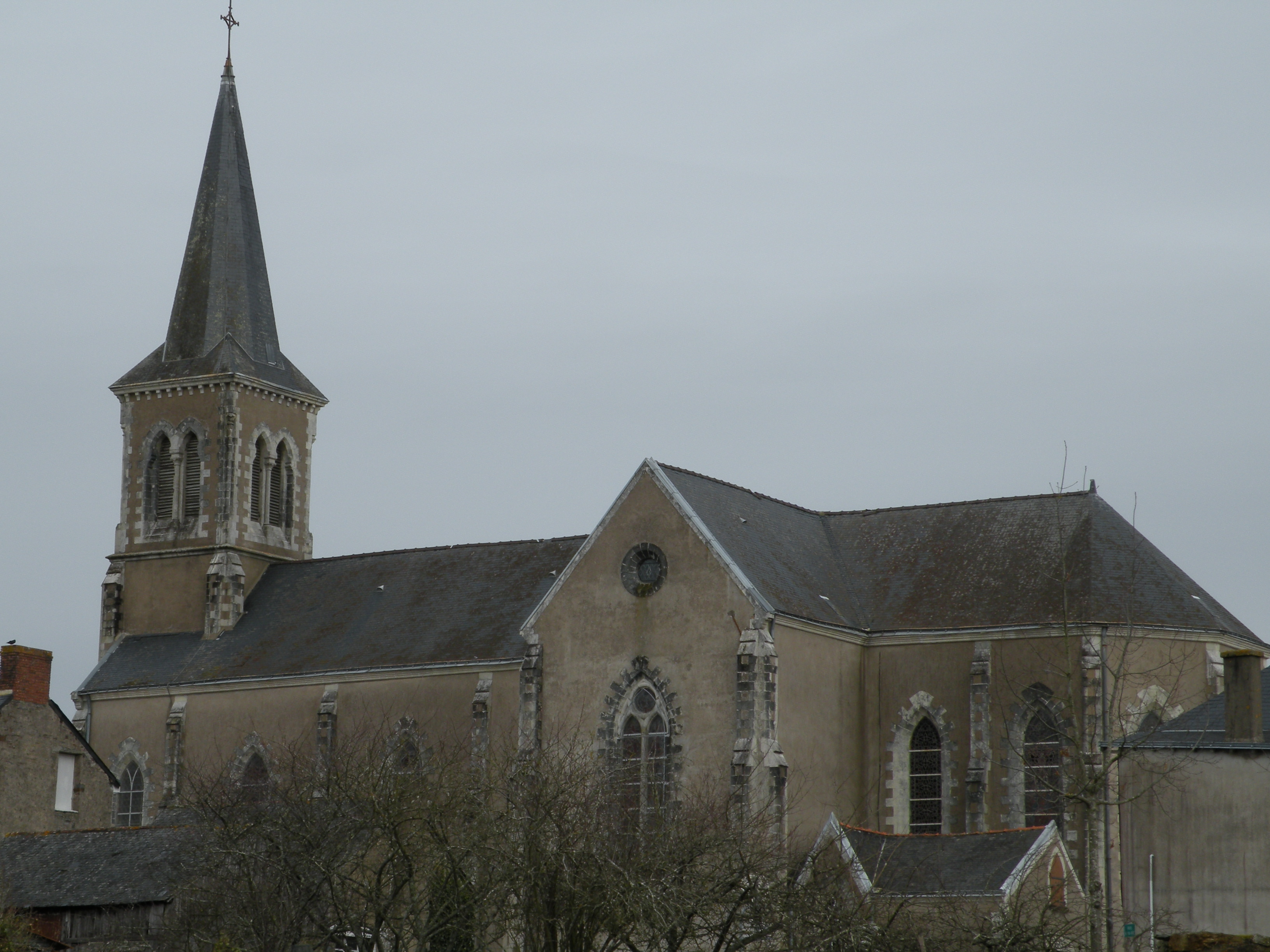 Church of La Grigonnais